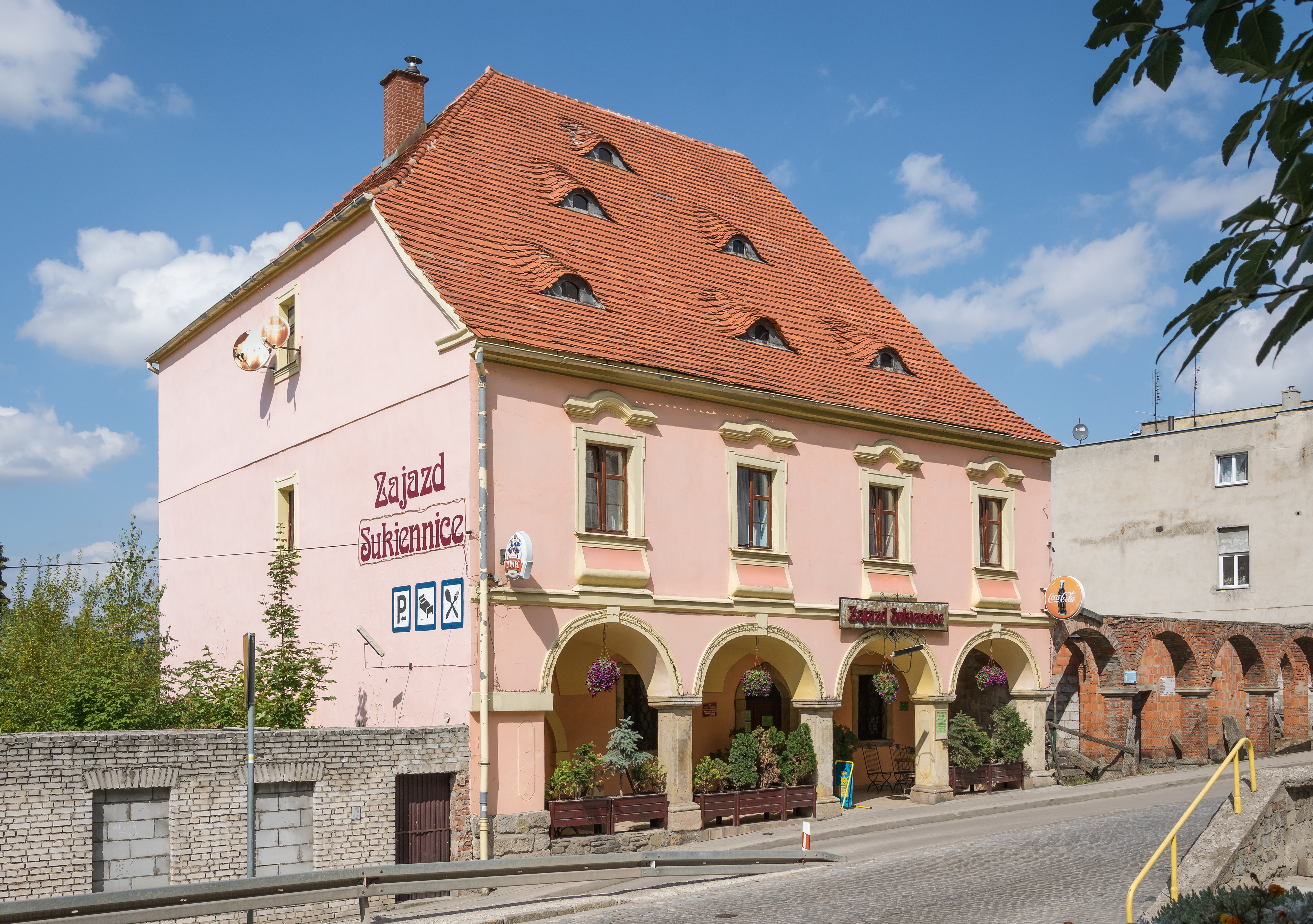 2-4 Wojska Polskiego Street in Międzylesie Wikidata has entry Q30049027 with data related to this item.